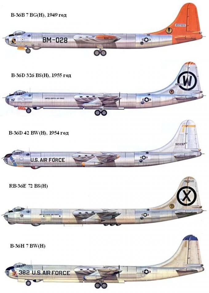 b-36 modification